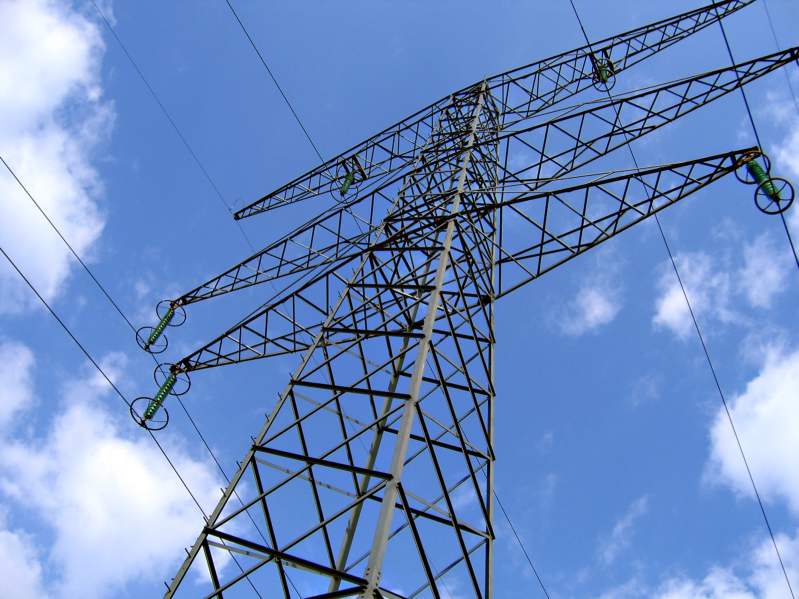 Transmission tower (pylon) carrying a 225 kV elecric transmission line near Fessenheim nuclear power station, France. – The rings mounted around the ends of the insulators that support the line are called corona rings. They serve to reduce the electric field at the support points to prevent corona discharge, which causes leakage of current from the line.